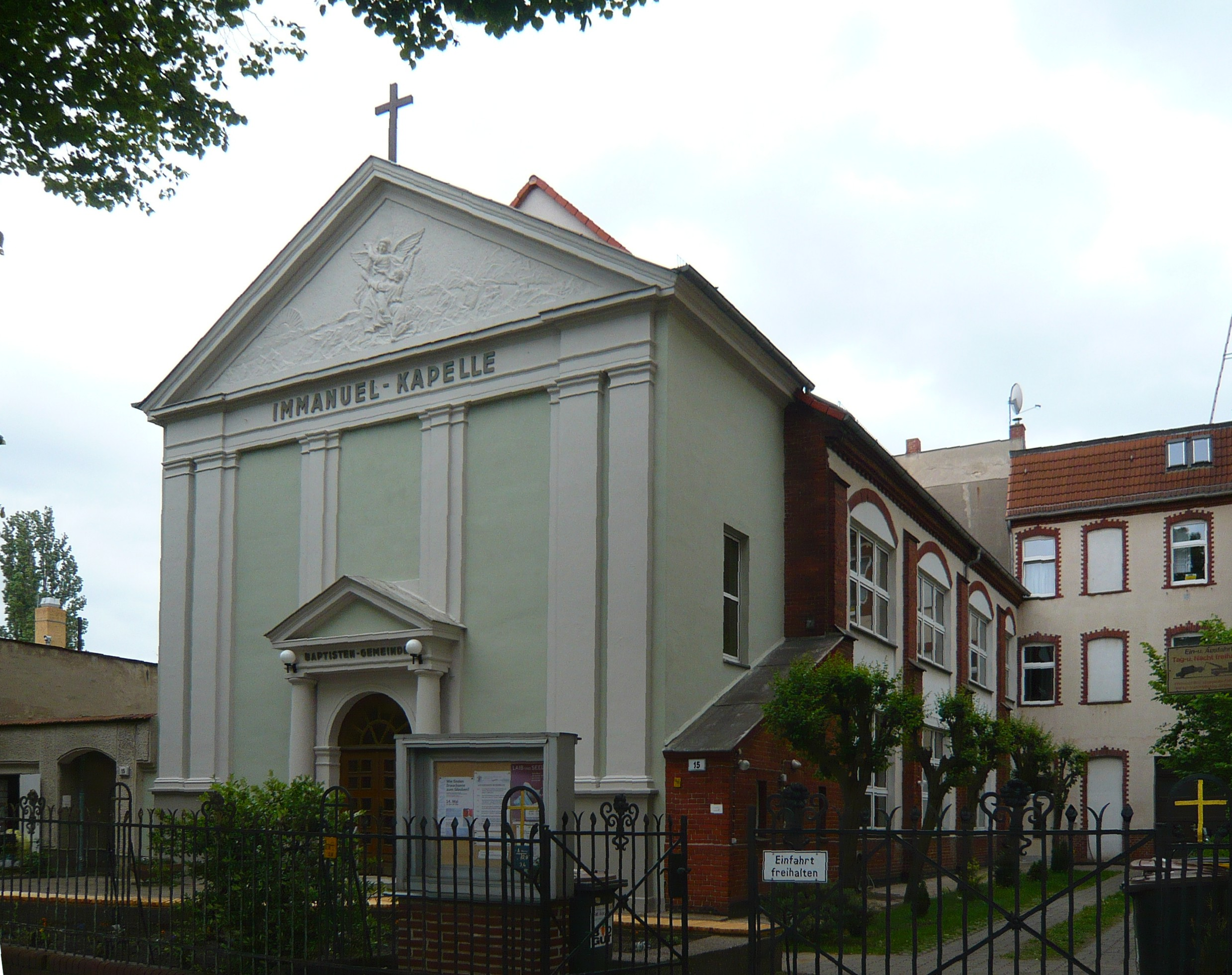 Church of Evangelical Free Church Congregation at street Friesickestrasse 15, Berlin-Weißensee, Germany